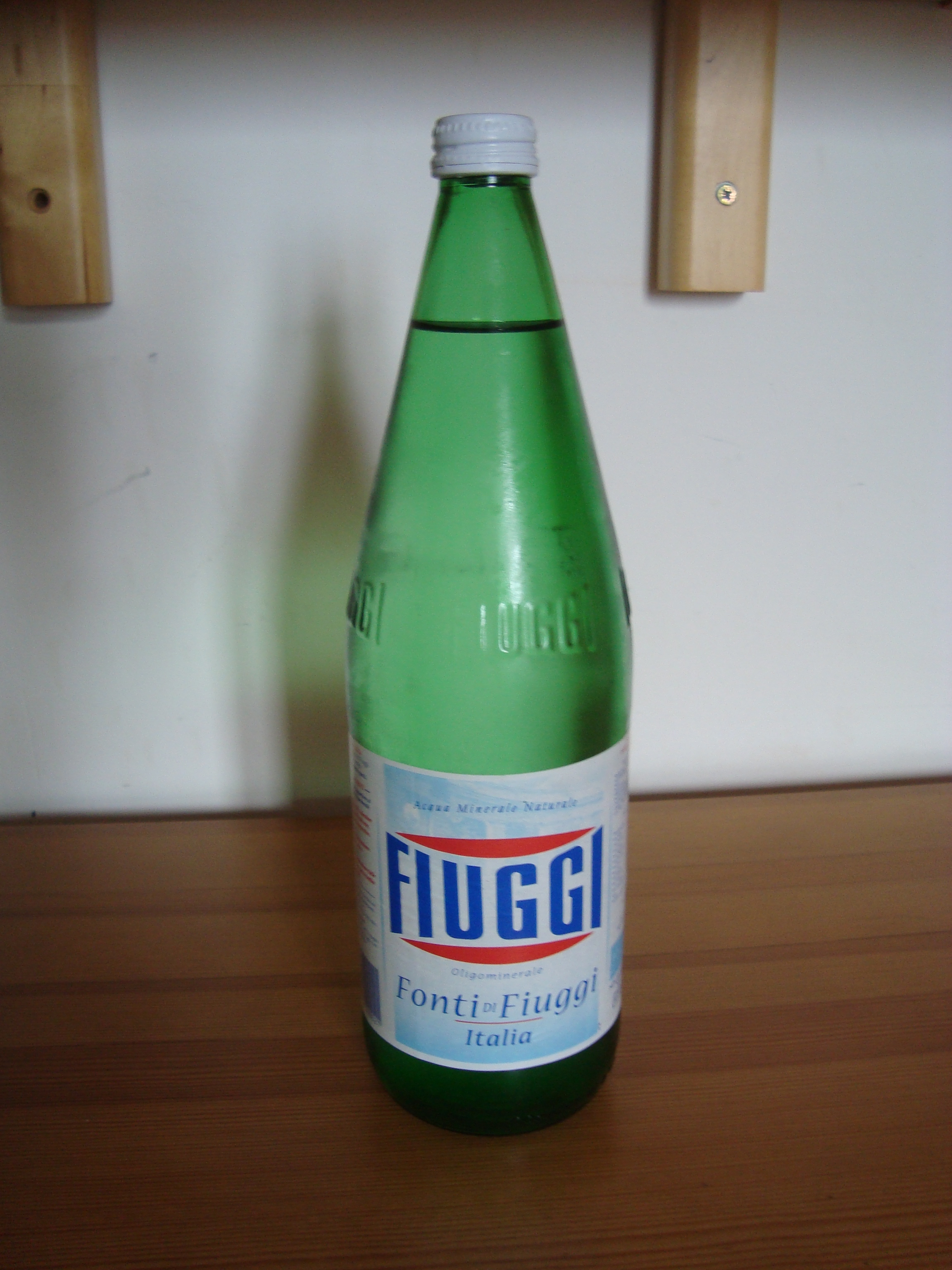 Bottle of Fiuggi, mineral water from Italy